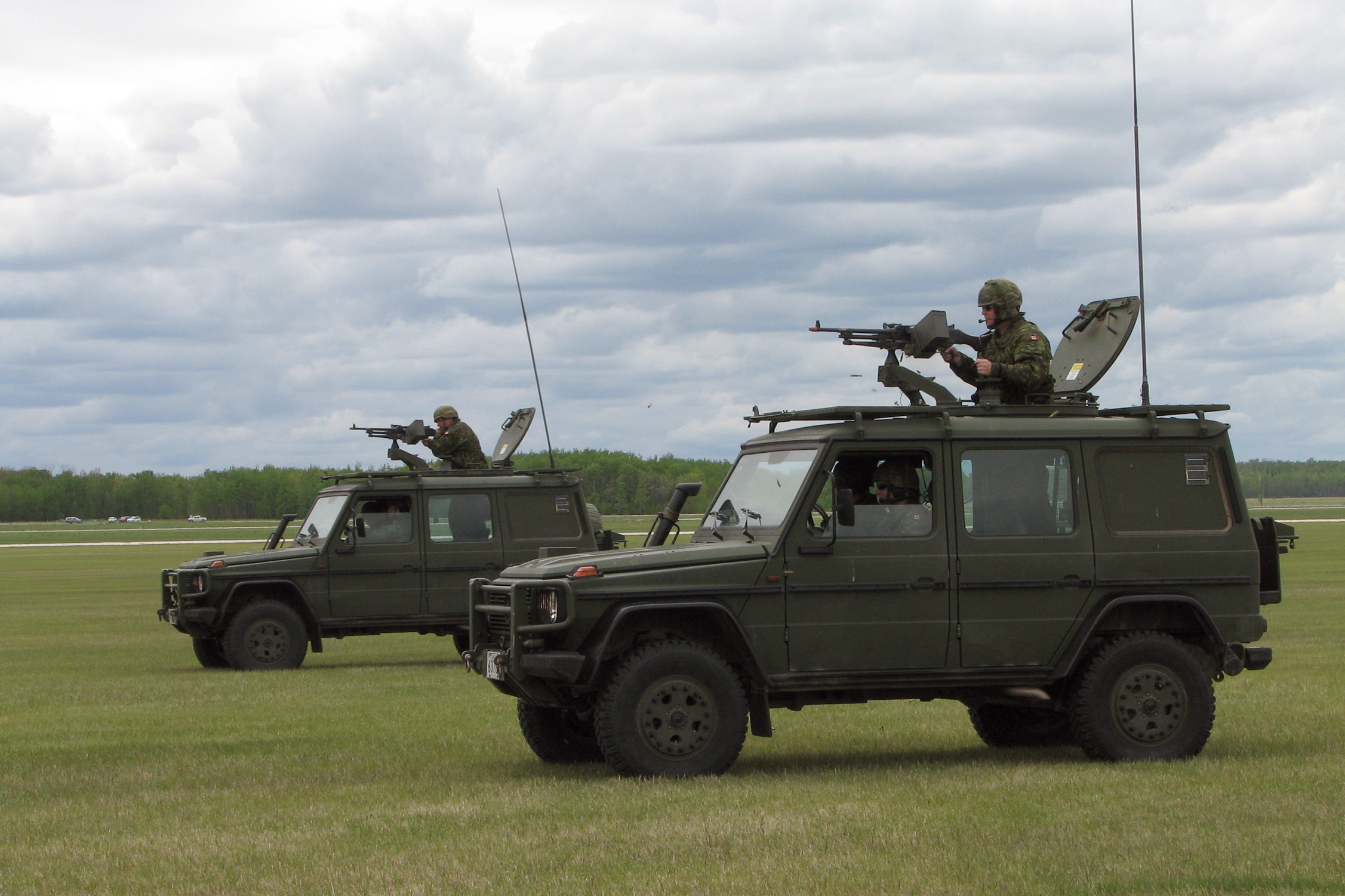 Two Canadian Forces G-Wagons during an army demonstration at the 2009 Portage-la-Prairie air show. They were firing blanks and ejected casings from the near G-Wagon's gun are visible .